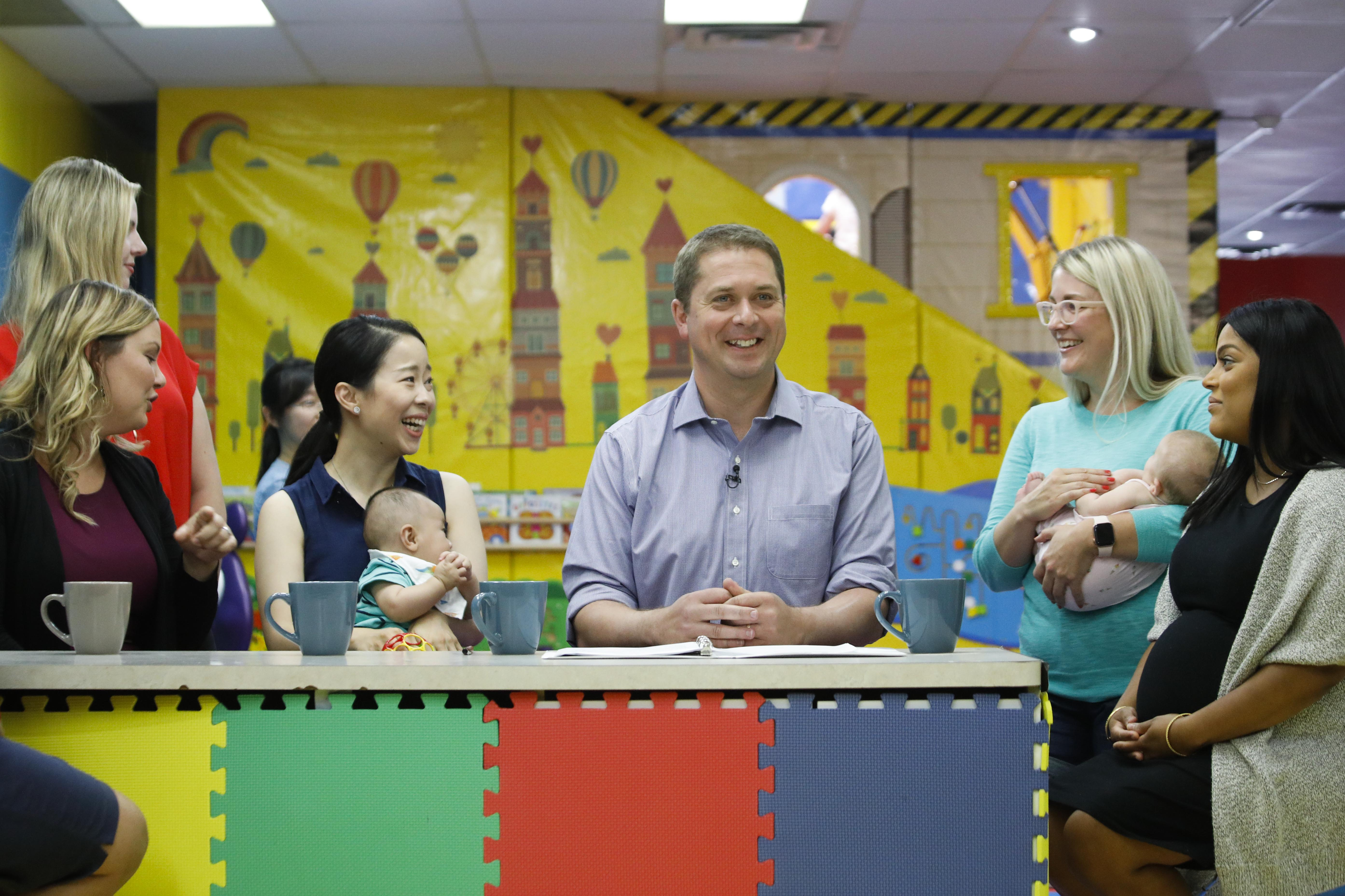 Having a child is an exciting milestone in any person’s life, but it comes with added costs and pressures. As Prime Minister, I will make maternity benefits tax-free. This would put $4,000 back in the pockets of new parents.